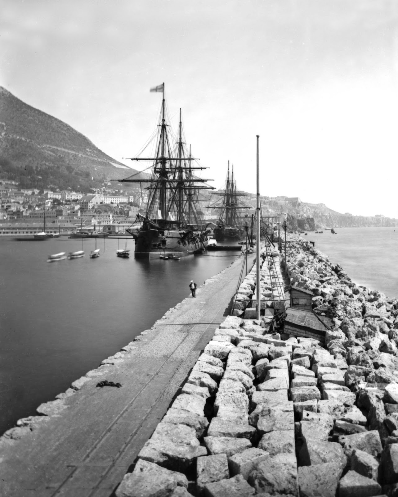 View from New Mole. Photograph from c. 1880 byGeorge Washington Wilson (died 1893) of a place in Gibraltar - images found by Neville Chipolina